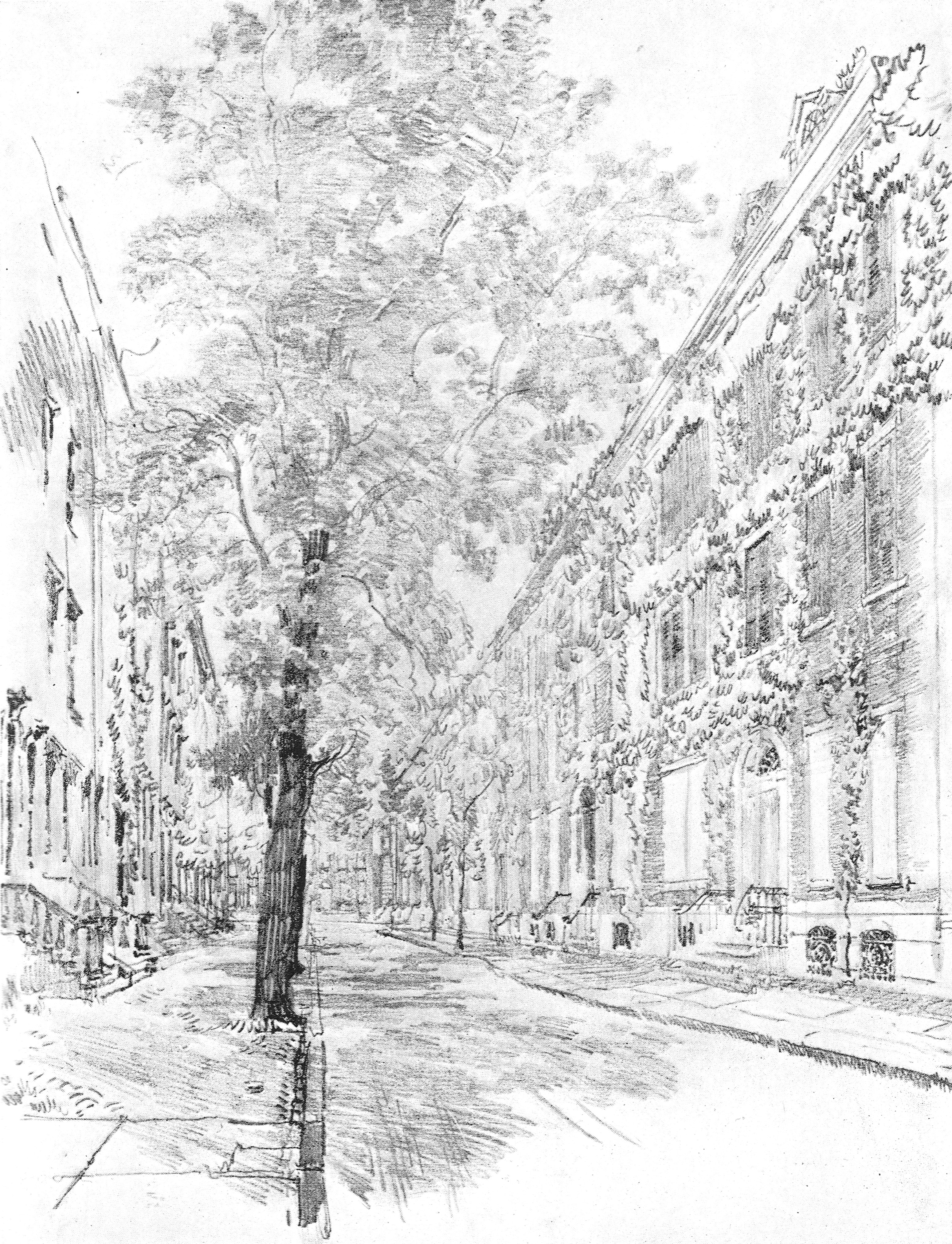 Image of p. 3 from Our Philadelphia (1914) by Elizabeth Robins Pennell and Joseph Pennell. Scanned at 600dpi from an original copy. Caption: DELANCEY PLACE